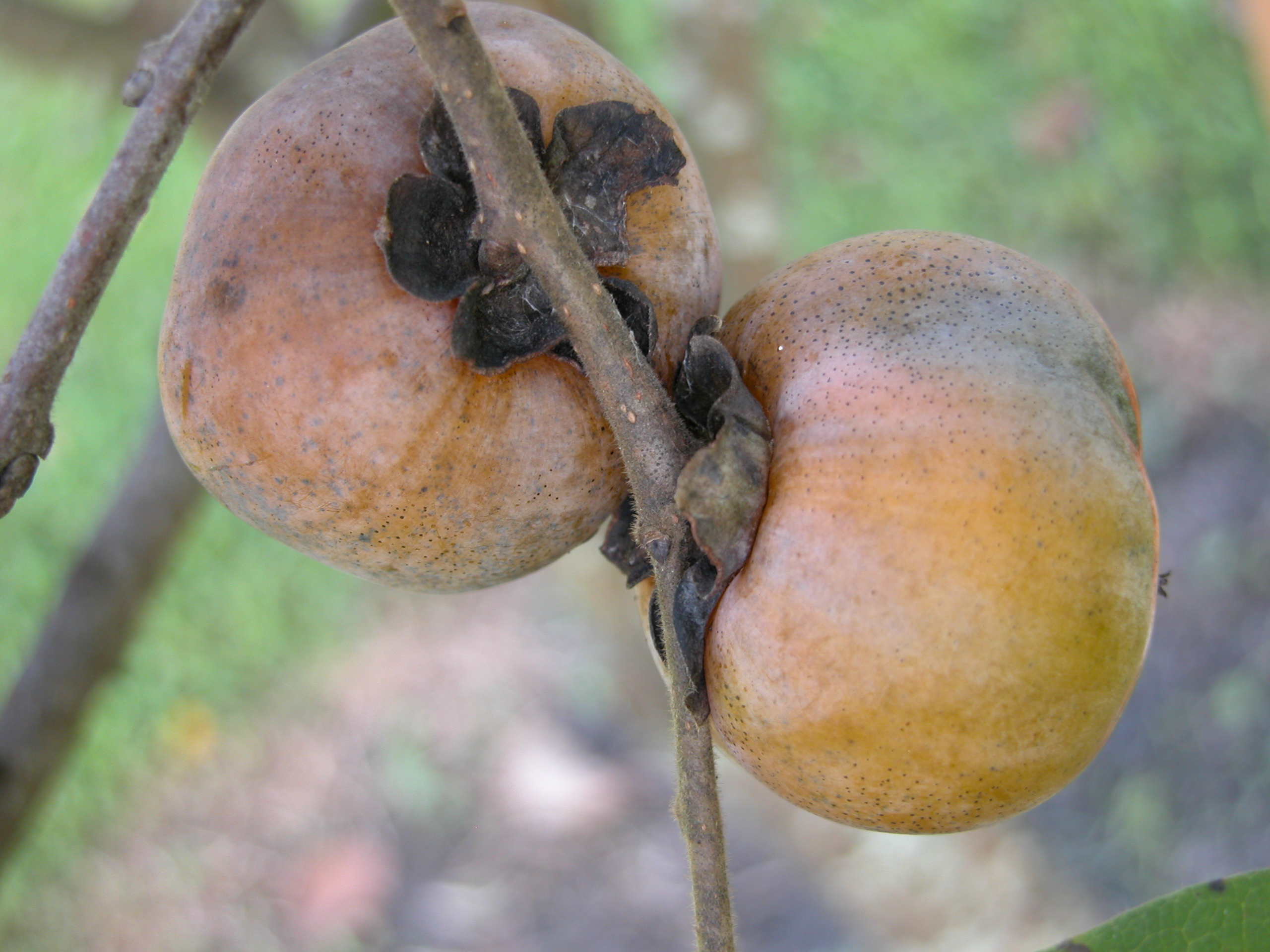 Ripe American Persimmons (Diospyros virginiana / Ebenaceae) fruits in Tampa, Florida.